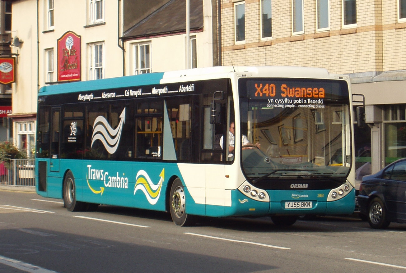 Arriva Cymru bus 2863 (reg. YJ55 BKN), a 2005 Optare Tempo single-decker, pictured in Aberystwyth. It's branded for TrawsCambria and operating route X40 to Swansea.